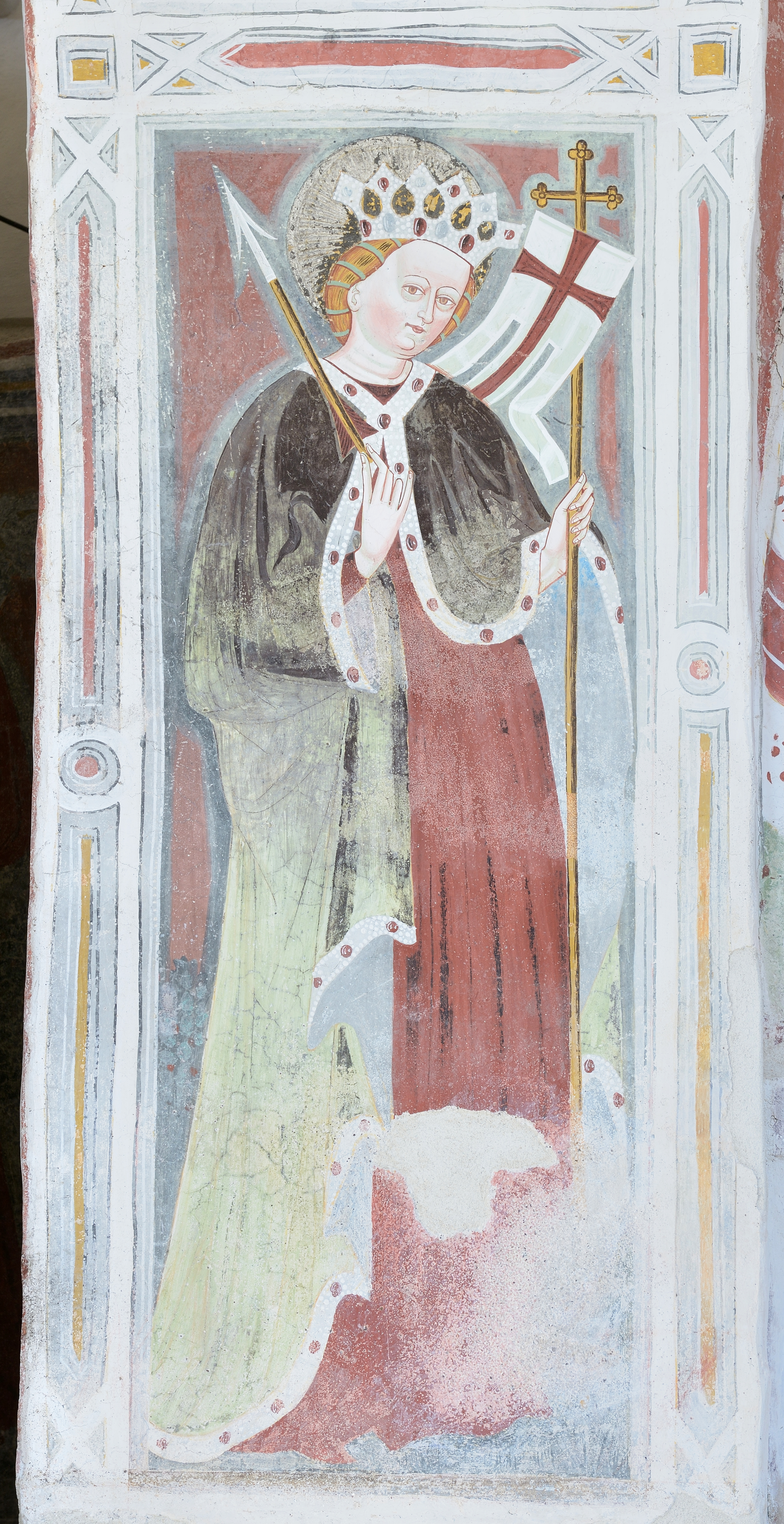 Saint Ursula in a 15th century fresco on the St. Jacob church inUrtijëi,in Val Gardena.